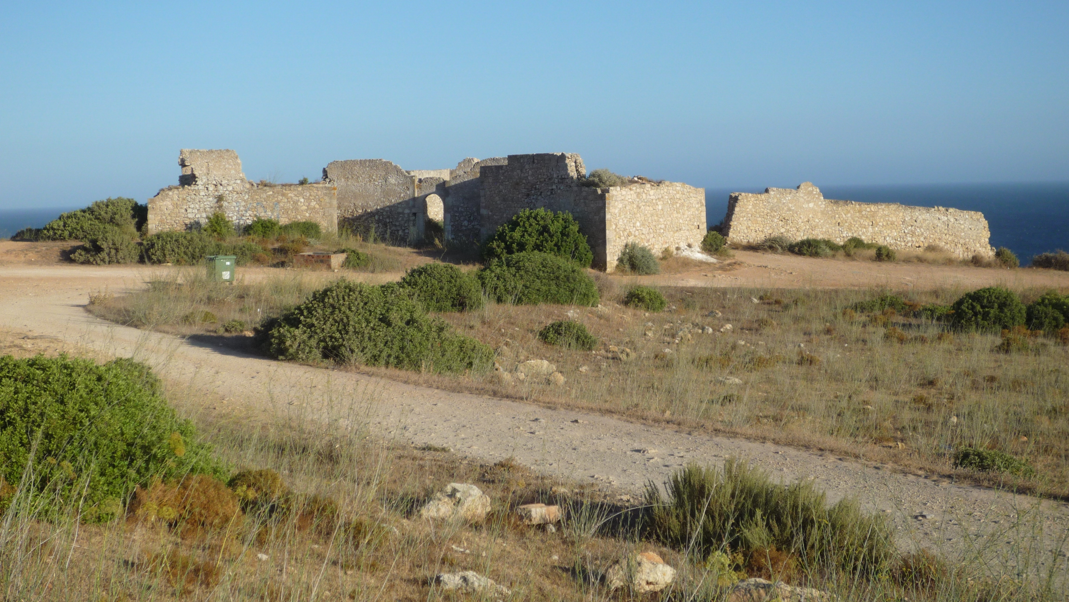 The Forte de São Luís de Almádena in Boca do Rio, Budens, Vila do Bispo, Algarve. Built in 1632. Municipal website. More images.